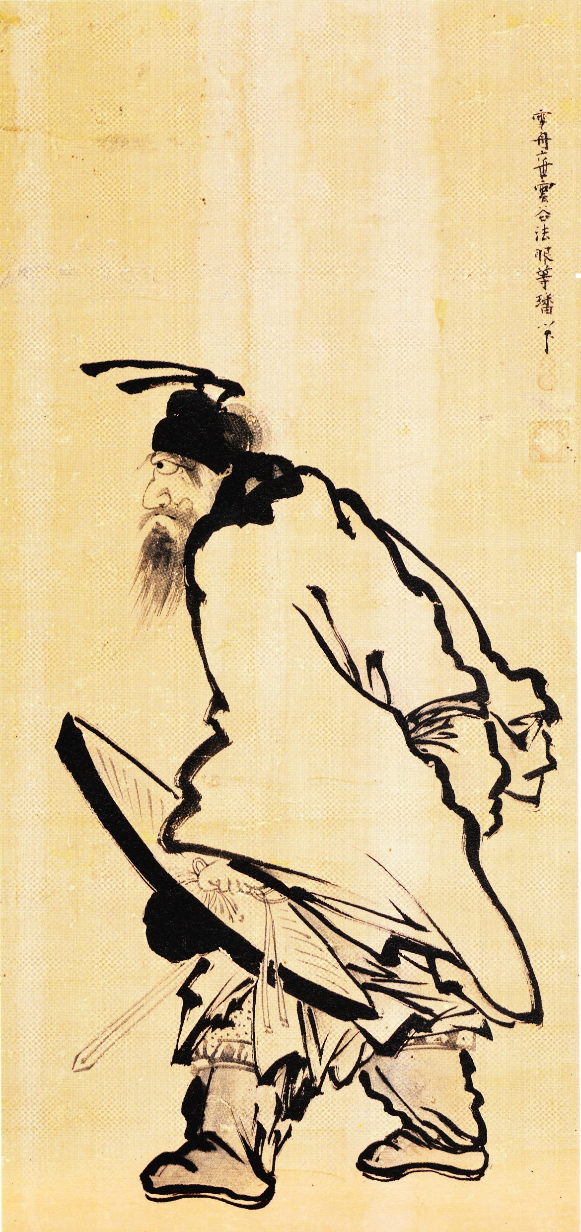 Picture of demon Shôki